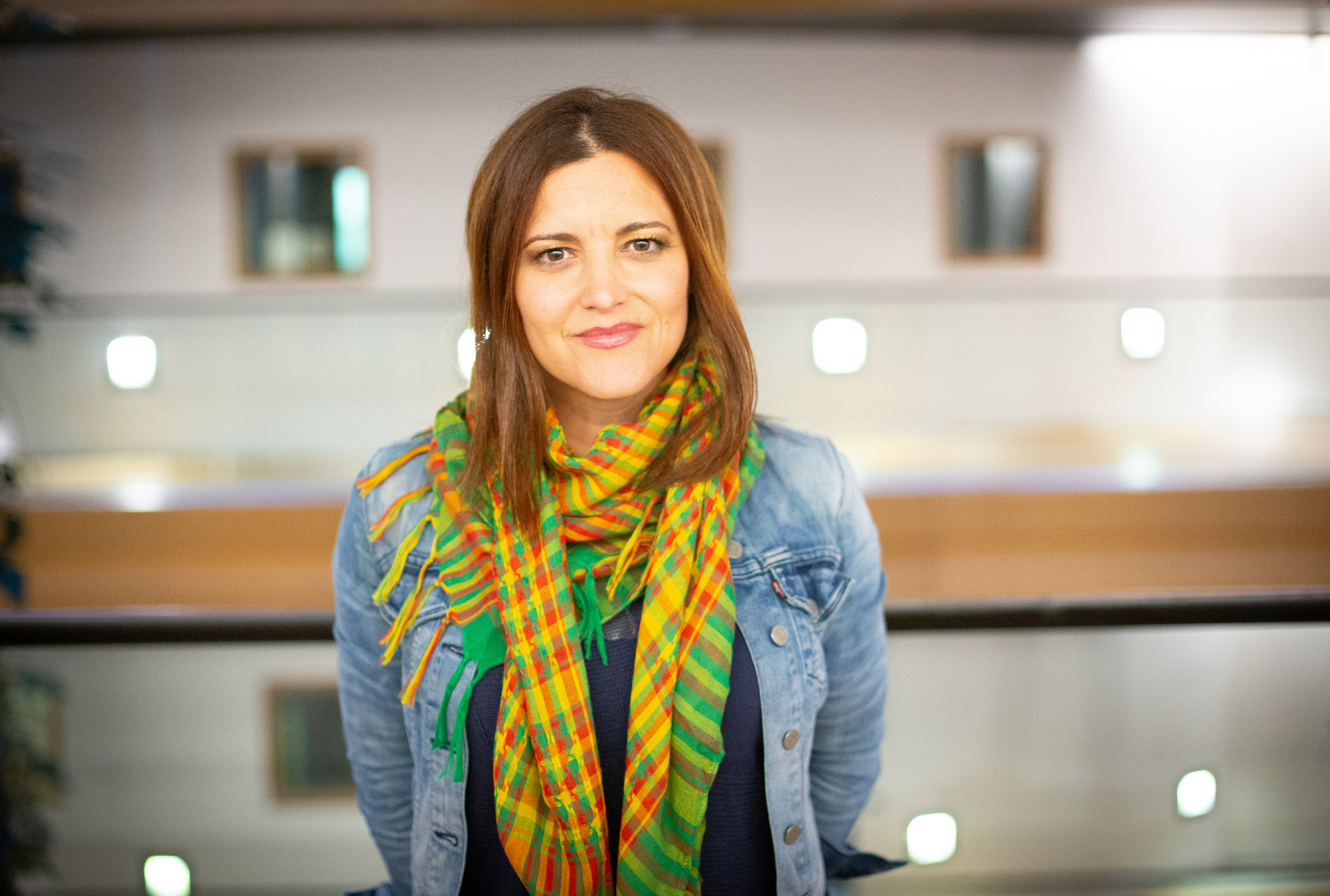 This week in #Eplenary our MEPs showed their solidarity with the Kurdish people #Rise4Rojava